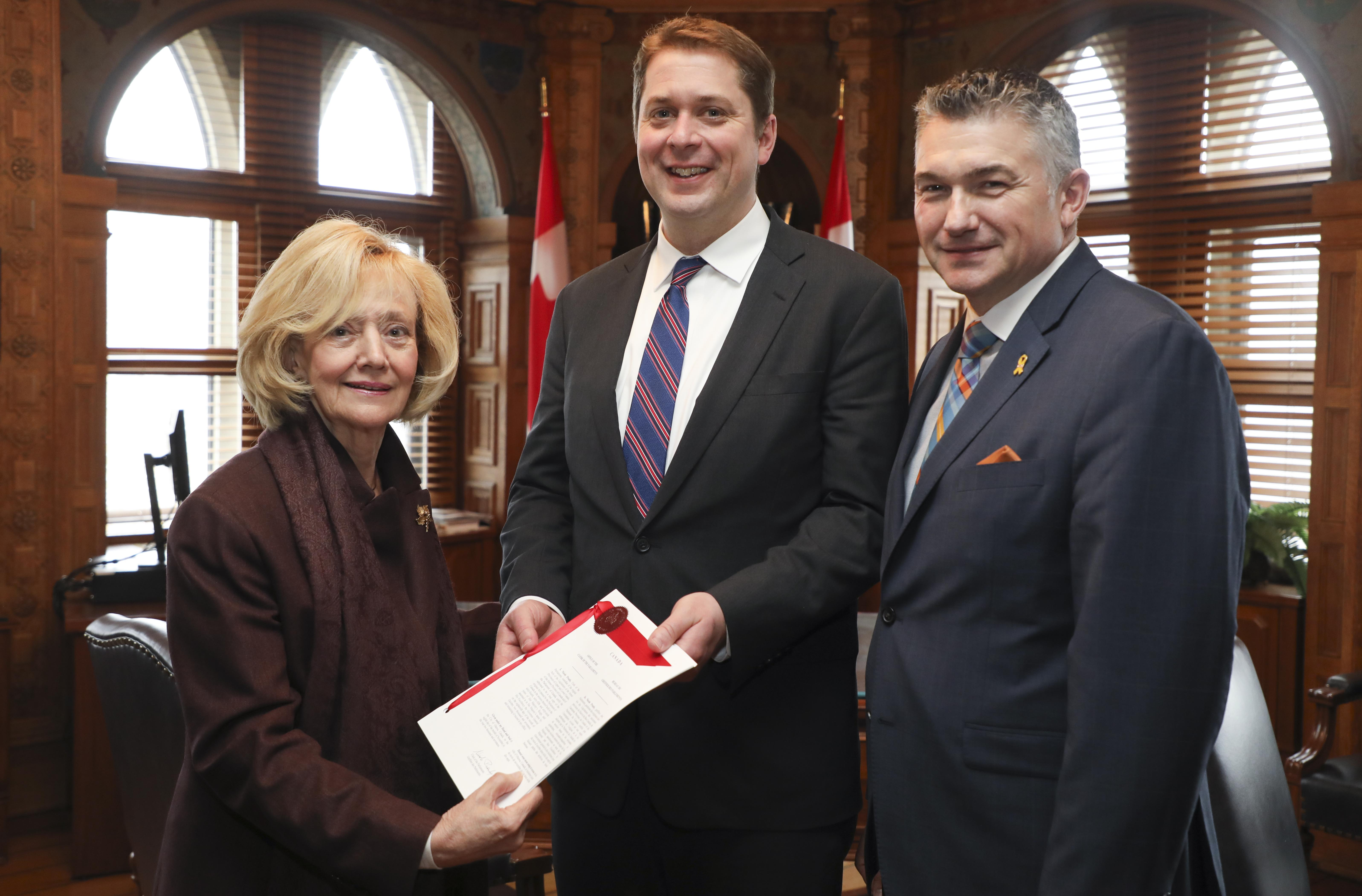 We received a copy of the Magnitsky Act today, which is now Canadian law. I'm proud of the work of my colleagues James Bezan and Raynell Andreychuk, together with advocates like Bill Browder and many others. Canada will continue to stand up for human rights.